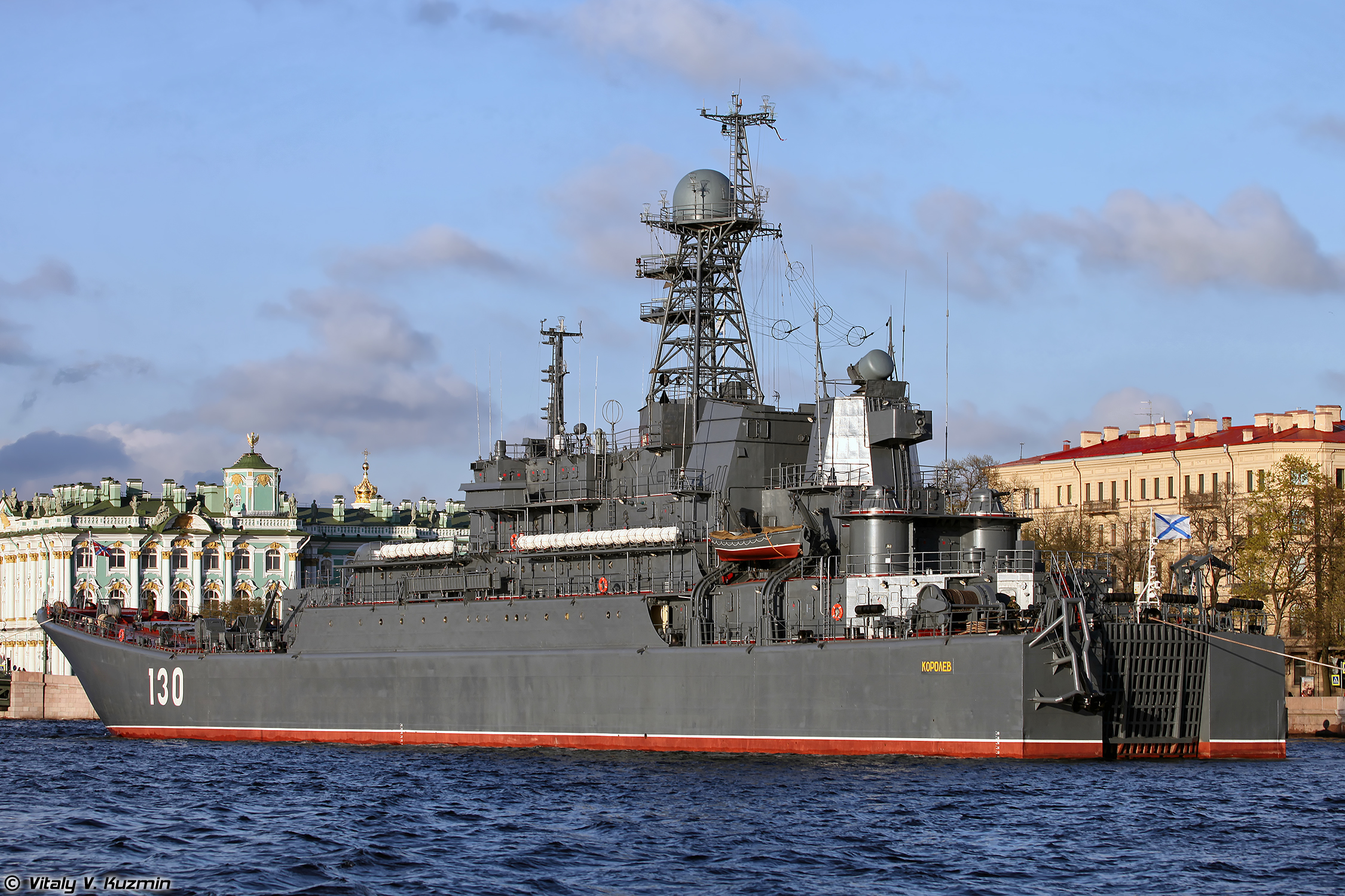 Project 775 landing ship Korolev